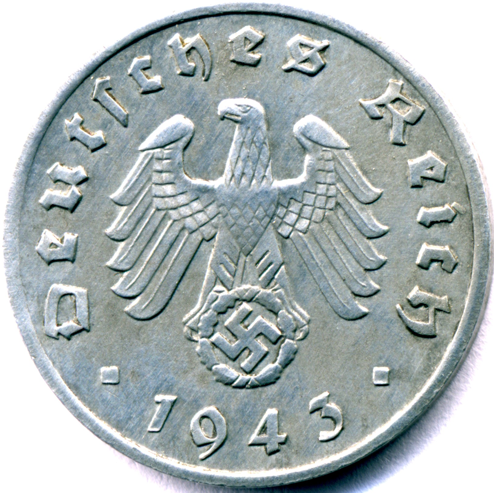 Nazi 1943 zinc 1 Reichspfenning coin, Obverse with date and eagle/ swastika